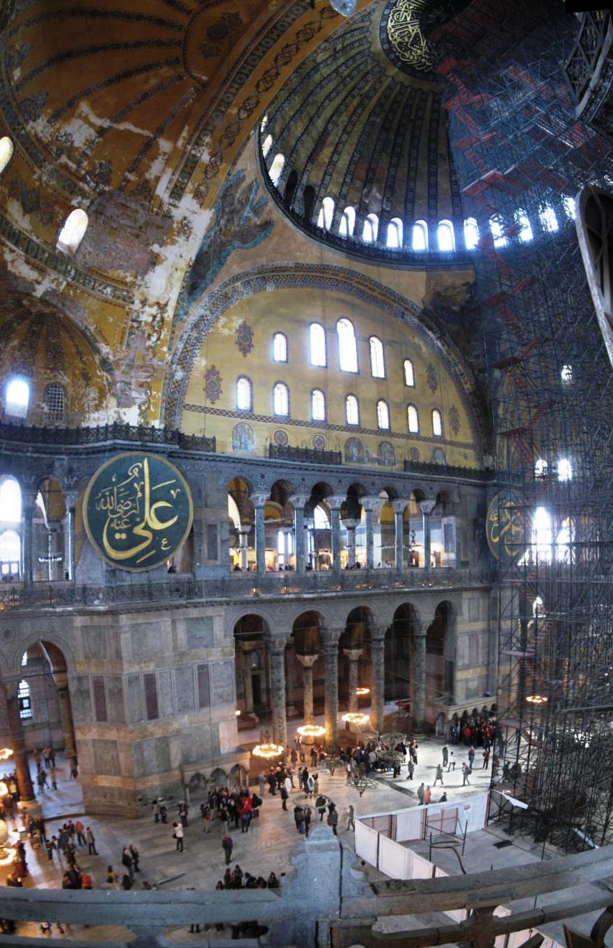 Interior of Hagia Sophia, Istanbul.